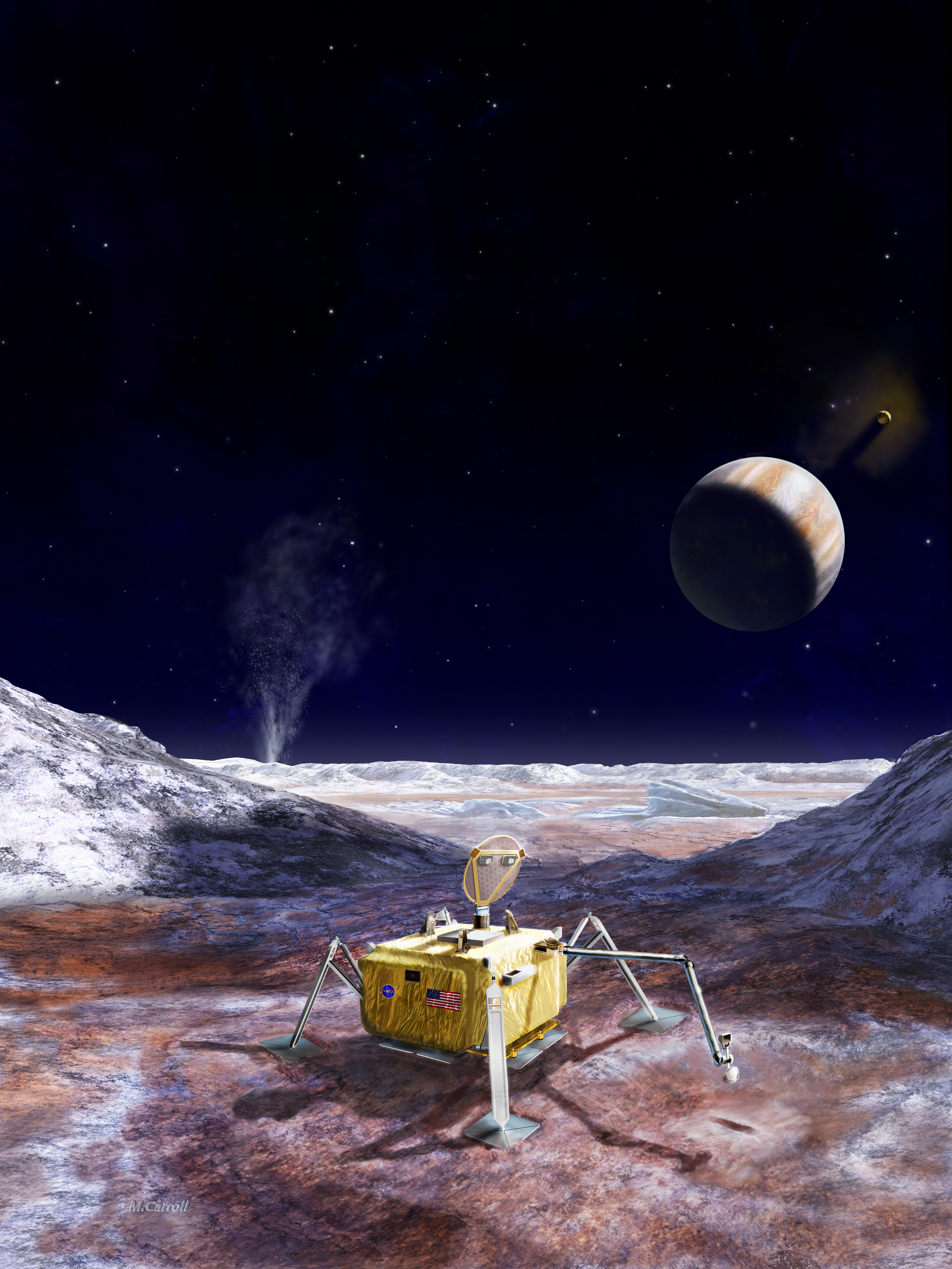 This artist's rendering illustrates a conceptual design for a potential future mission to land a robotic probe on the surface of Jupiter's moon Europa. The lander is shown with a sampling arm extended, having previously excavated a small area on the surface. The circular dish on top is a dual-purpose high-gain antenna and camera mast, with stereo imaging cameras mounted on the back of the antenna. Three vertical shapes located around the top center of the lander are attachment points for cables that would lower the rover from a sky crane, which is envisioned as the landing system for this mission concept. An alternate version of this artwork, with a vertical orientation, is also available (see Figure 1).